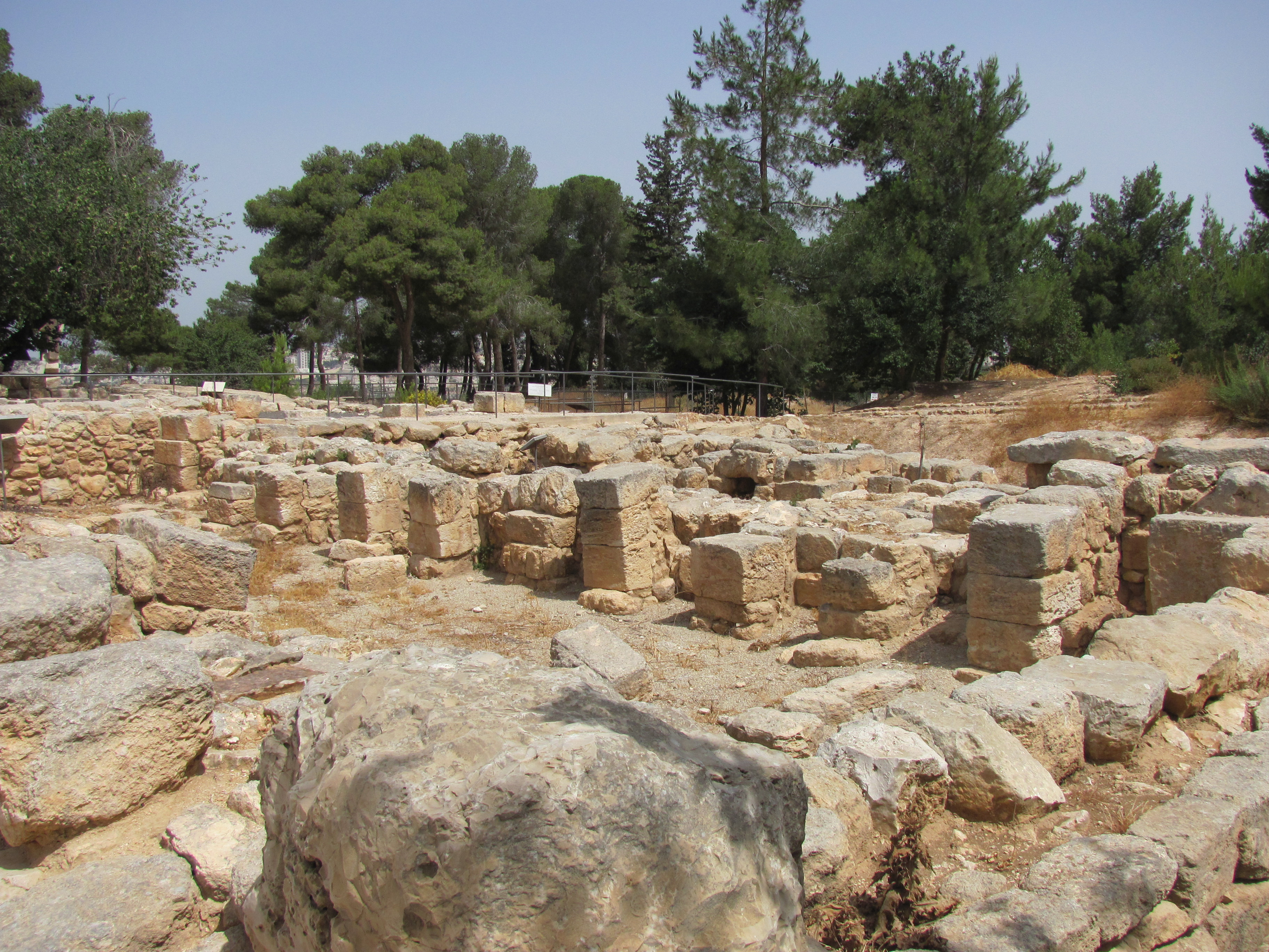 Ramat Rachel Archeological Park.